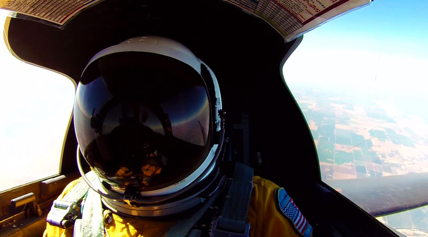 Pilot view within the U-2 cockpit.